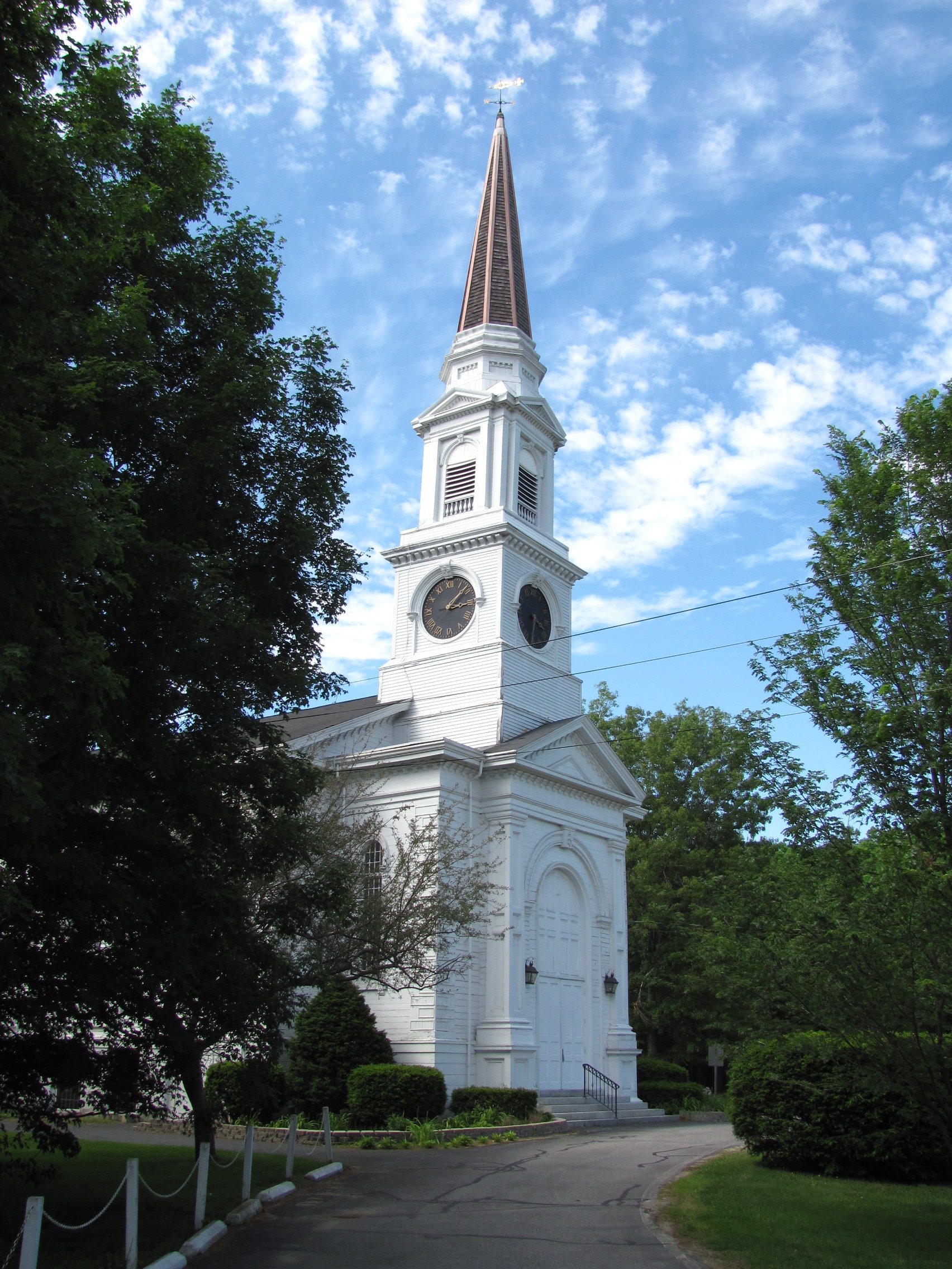 Neoclassical style facade of the Congregational Church, Wilmington Massachusetts